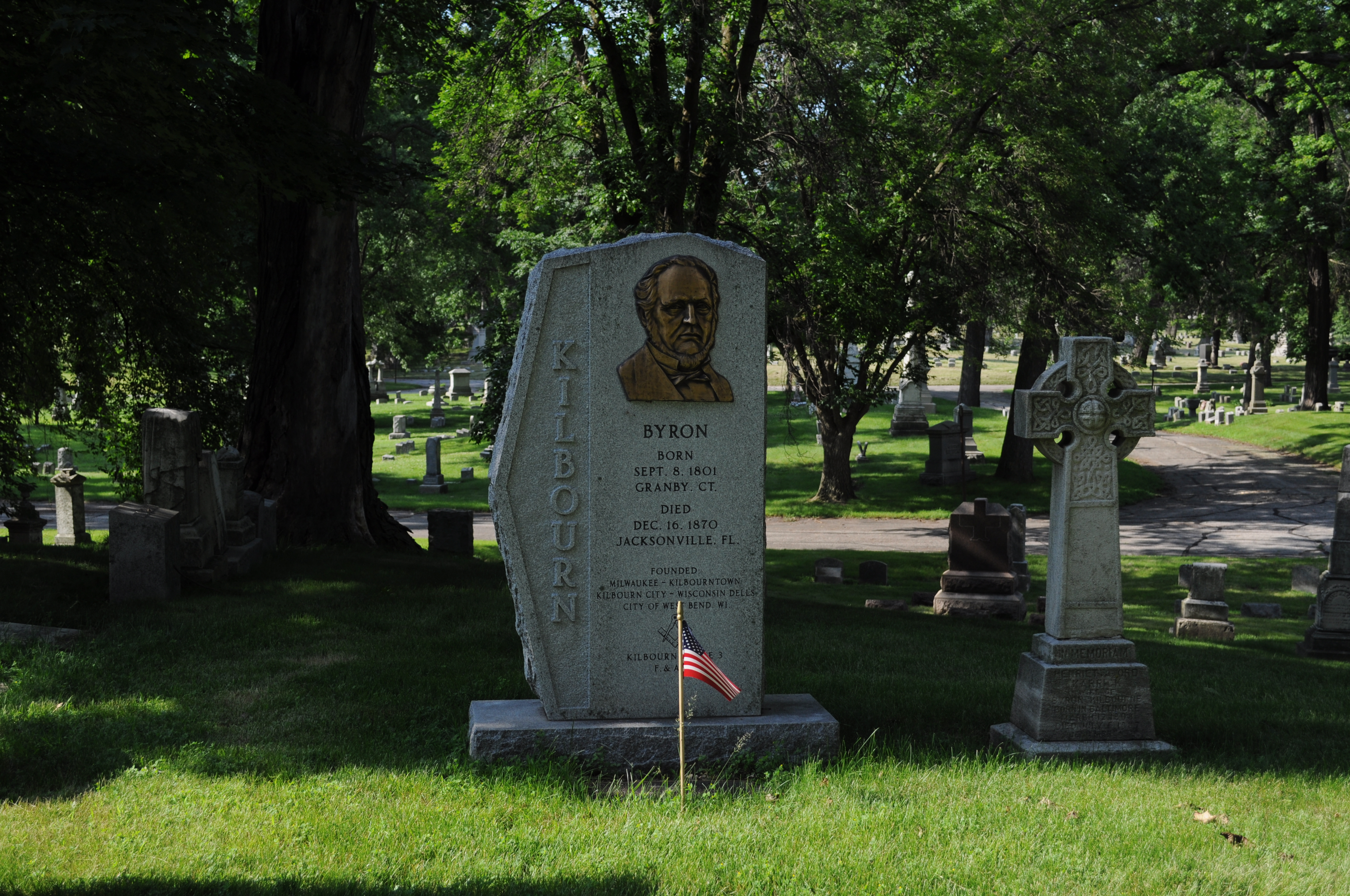 Tomb of Byron Kilbourn in Forest Home Cemetery in Milwaukee.